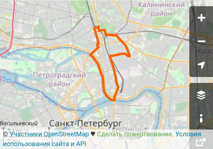 Border of Sampsoniyevskoye municipal okrug in Saint Petersburg This map may be incomplete, and may contain errors. Don't rely solely on it for navigation.